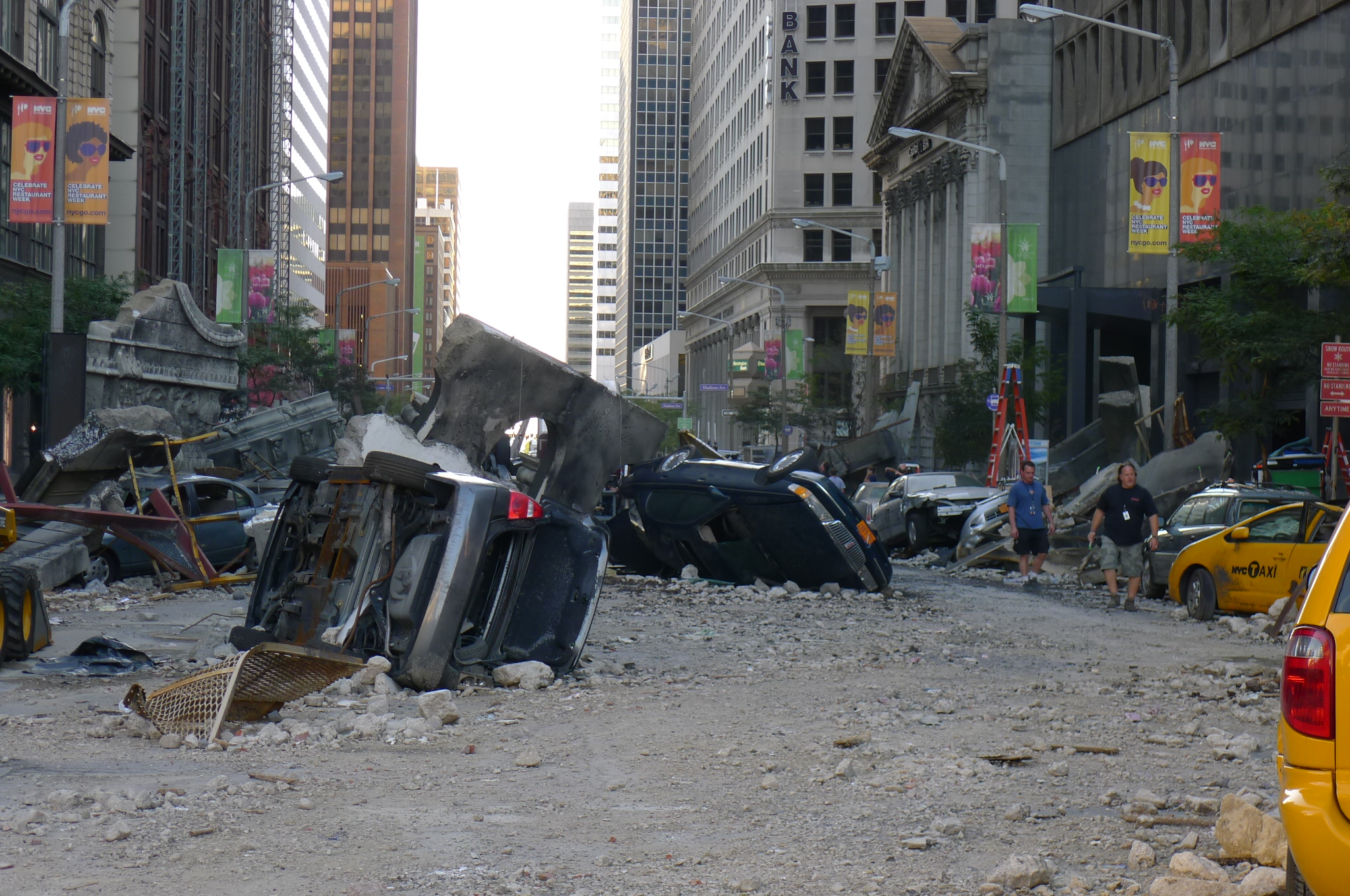 Cleveland's East 9th Street during the filming of The Avengers